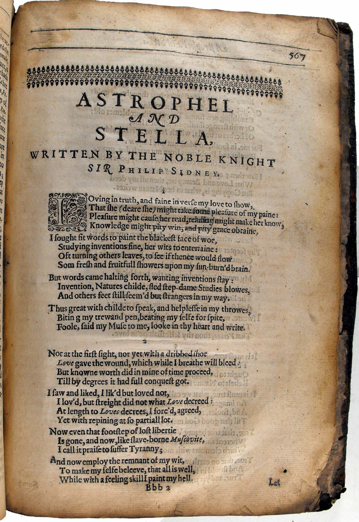 The title page of Sir Philip Sidney's Astrophel and Stella, from a 1627 edition of The Countess of Pembroke's Arcadia.